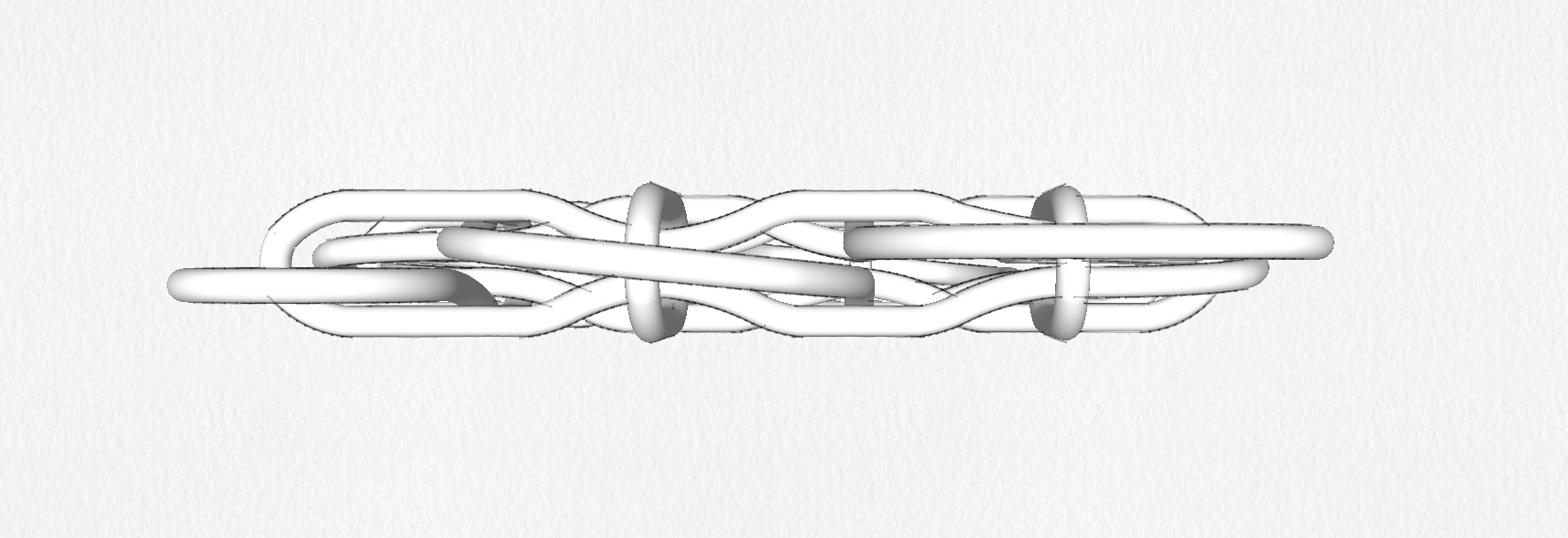 3d structure of Panchang knot (Chinese knotting) sideview